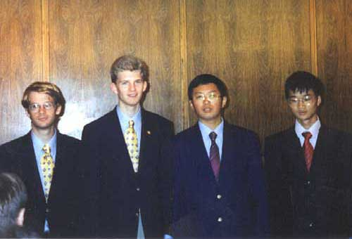 From left to right, Gabriel Carroll, USA, Reid Barton, USA, Zhiqiang Zhang, China, and Liang Xiao, China, the four perfect scorers in the 2001 International Mathematical Olympiad held in USA